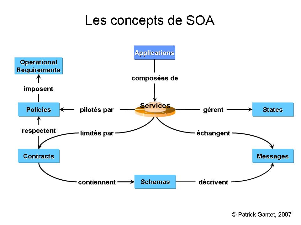 Concepts SOA